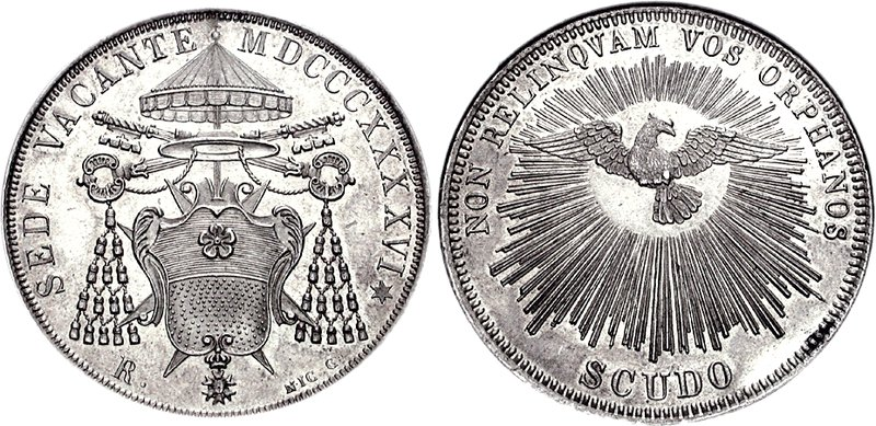 Italy, Papal States. Sede vacante. 1846. AR Scudo. Cardinal Tommaso Riario Sforza, Camerlengo. Roma mint. Dated 1846. SEDE VACANTE MDCCCXXXXVI H , coat-of-arms of Riario-Sforza over Cross of Malta, surmounted by cardinal’s hat with tassels over crossed keys and parasol; R and NIC C (Niccolò Cerbara) in exergue NON RELINQVAM VOS ORPHANOS, radiate dove of the Holy Spirit; SCUDO in exergue. CNI XVII 2; Muntoni 2; Berman 3295.